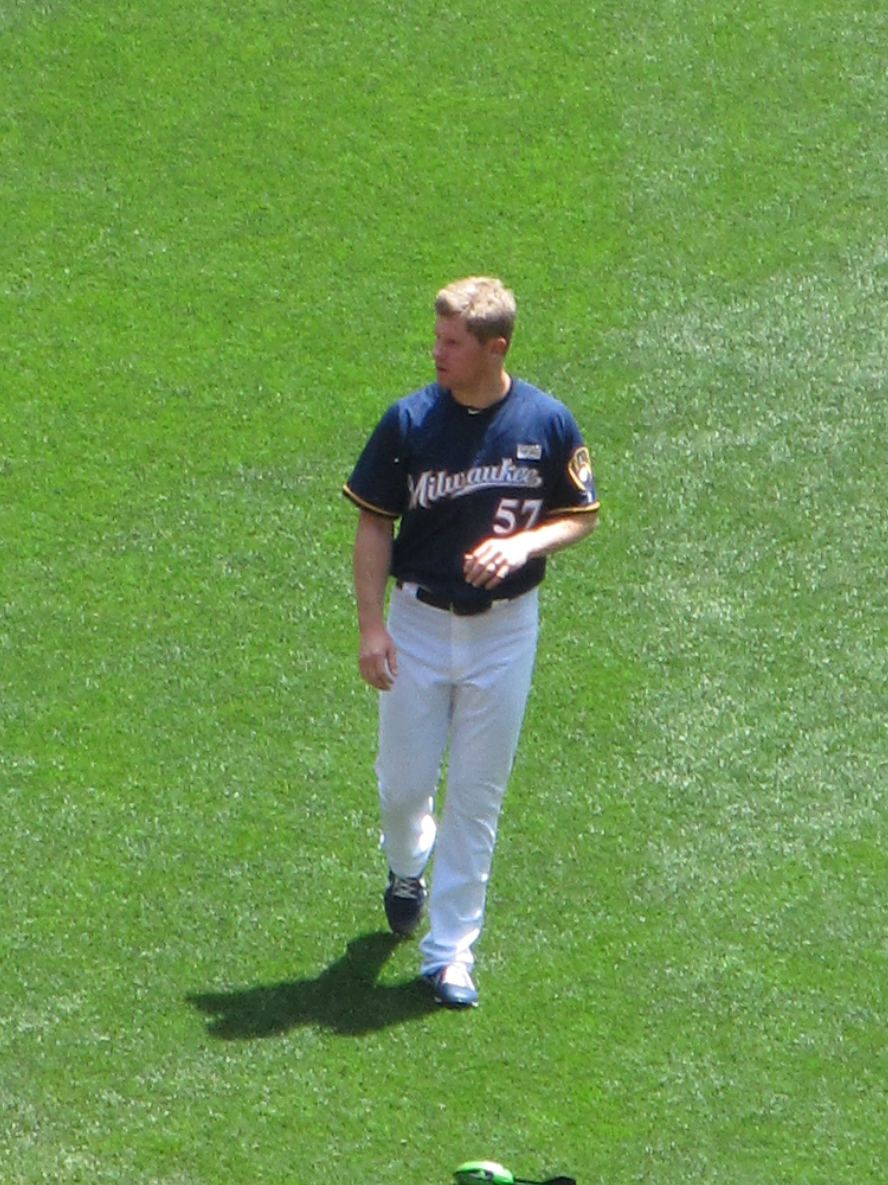 Chase Anderson before the Milwaukee Brewers play the Los Angeles Dodgers on June 4, 2017